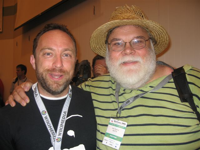 Photo of User:Alex756 (Alex T. Roshuk)† and Jimbo Wales taken at Wikimania 2006